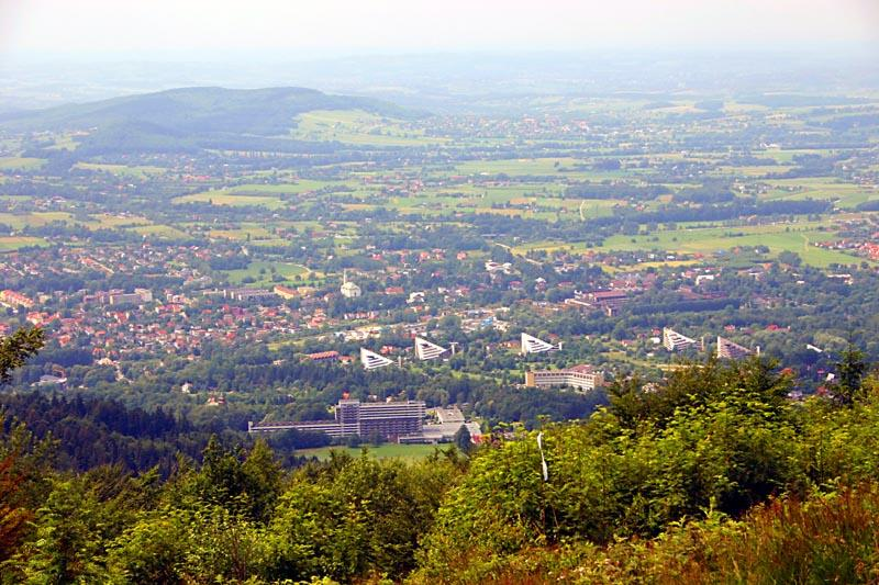 Ustron (Poland)